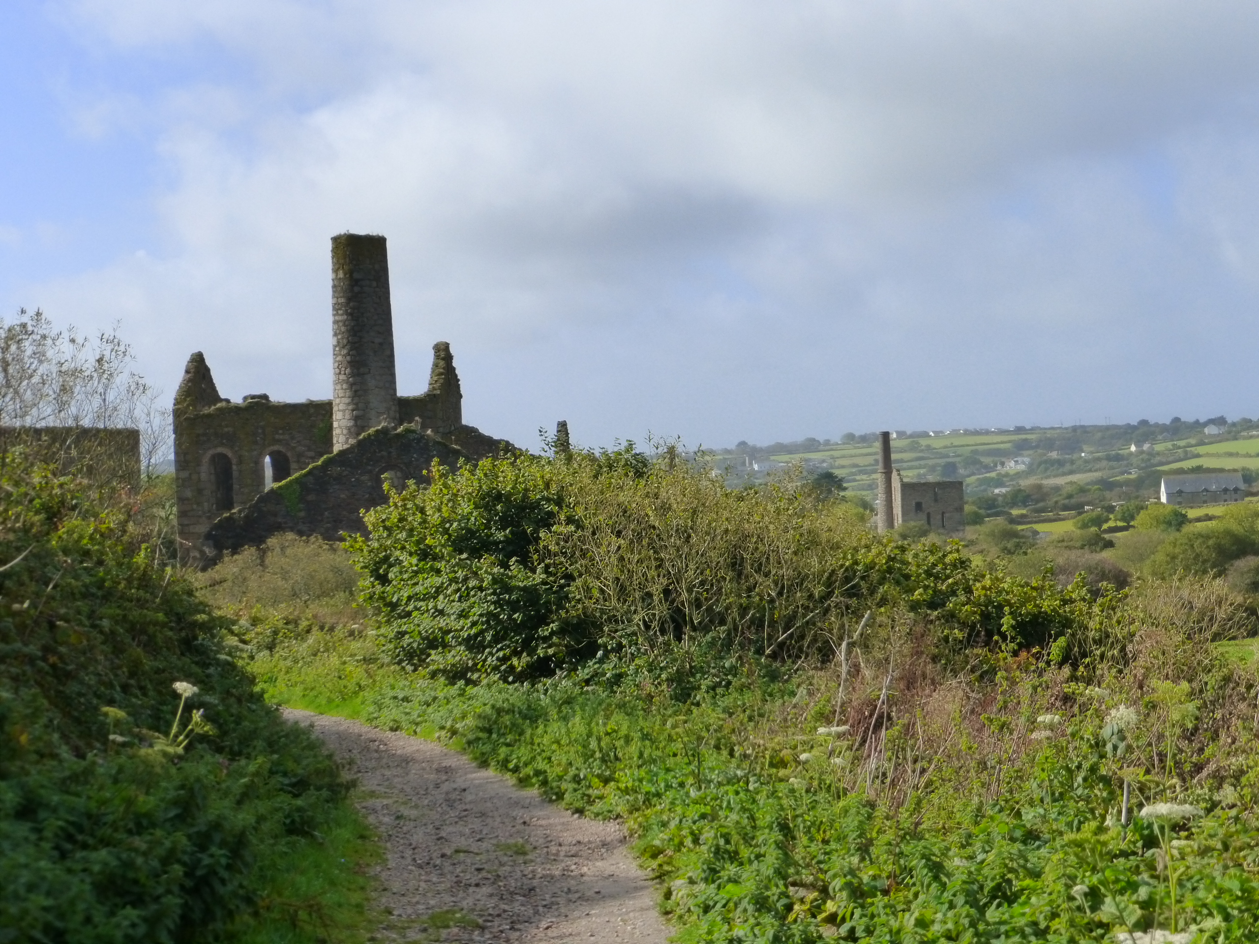 Part of the South Wheal Francis mining complex on the Great Flat Lode.